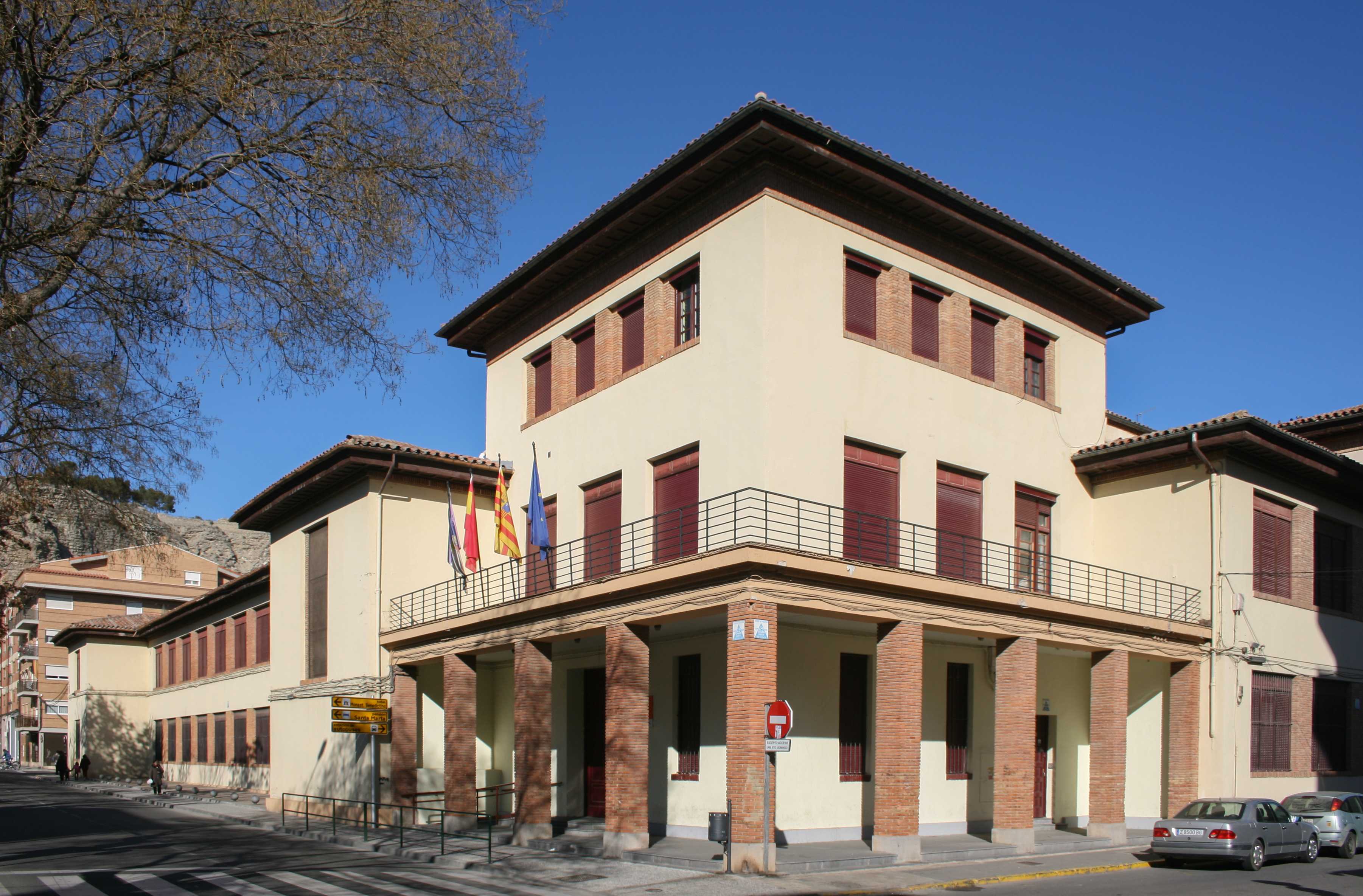 Institute of Secondary Education Leonardo de Chabacier, Calatayud, Spain.